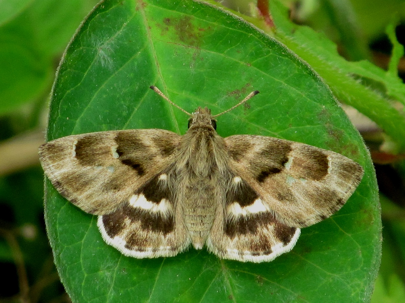 African Mallow Skipper_Gomalia elma